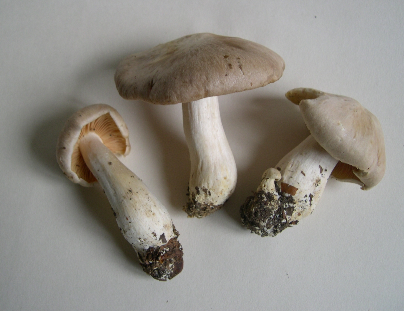 Entoloma sinuatum or Entoloma lividum. September 2005 - Piacenza's mountains - Italy by Archenzo